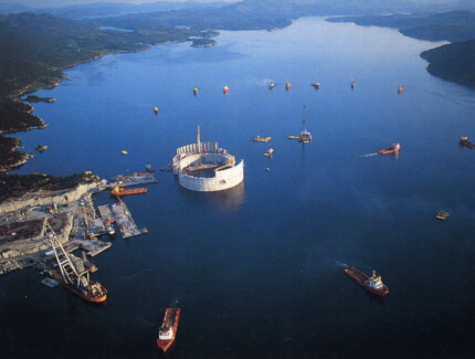 Picture of the building of Ekofisk wall in Vikebygd, Norway in 1988/89. Own picture.